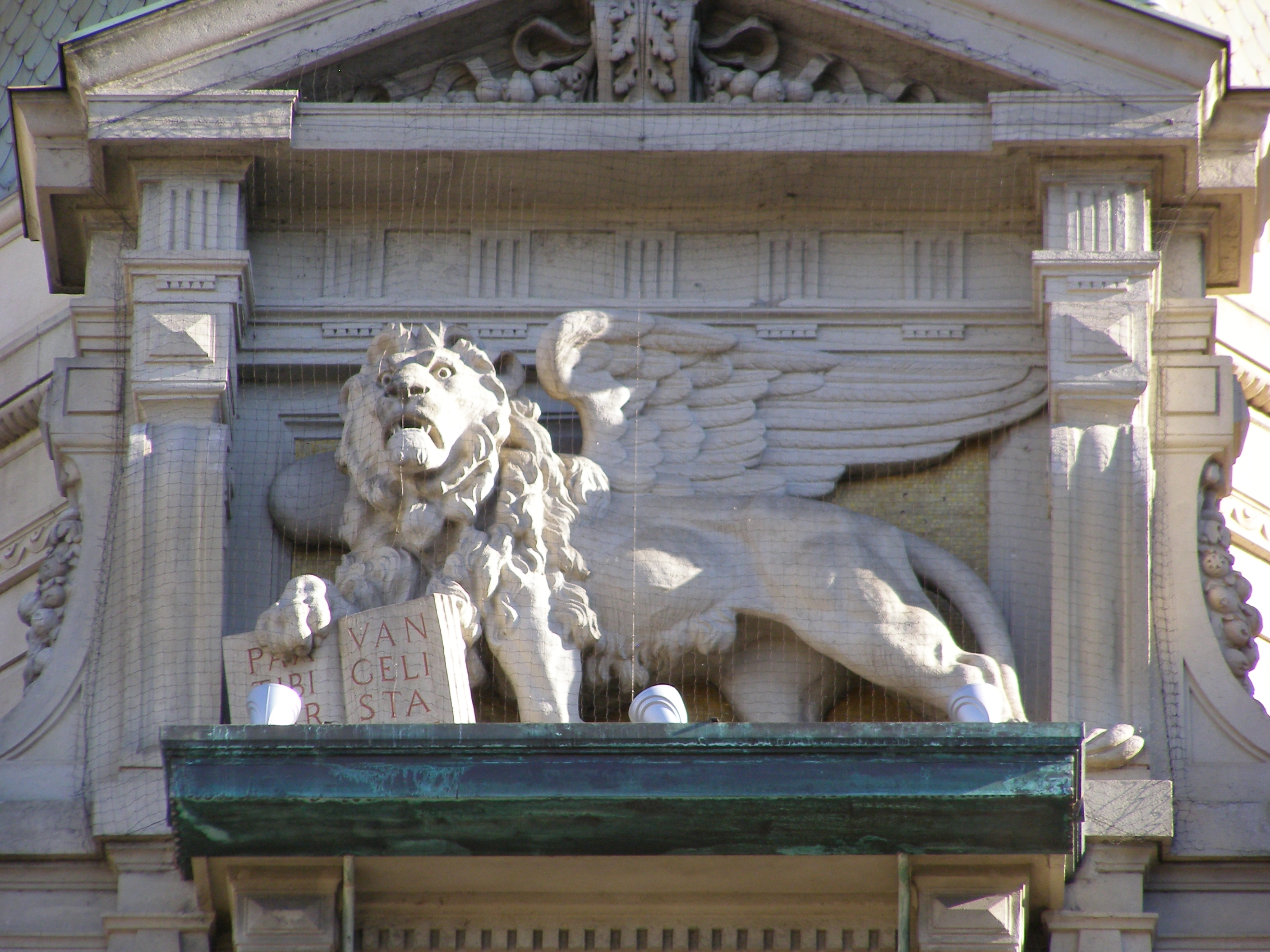 Milan - Palazzo delle Assicurazioni Generali